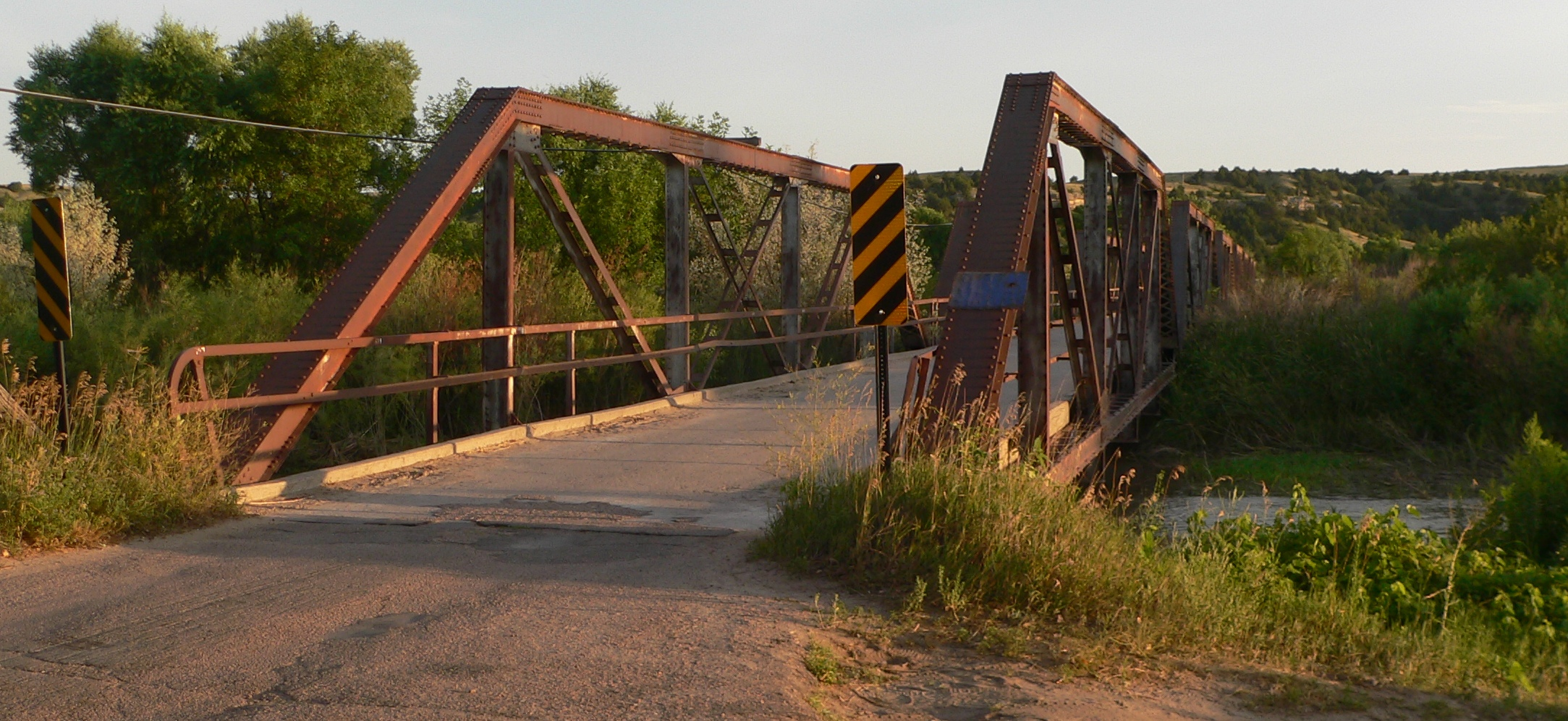 Lewellen State Aid Bridge, carrying county road 199A across the North Platte River south of Lewellen, Nebraska; seen from the south (downstream is east). The bridge consists of seven Pratt pony truss spans. Constructed in 1926, it is listed in the National Register of Historic Places.